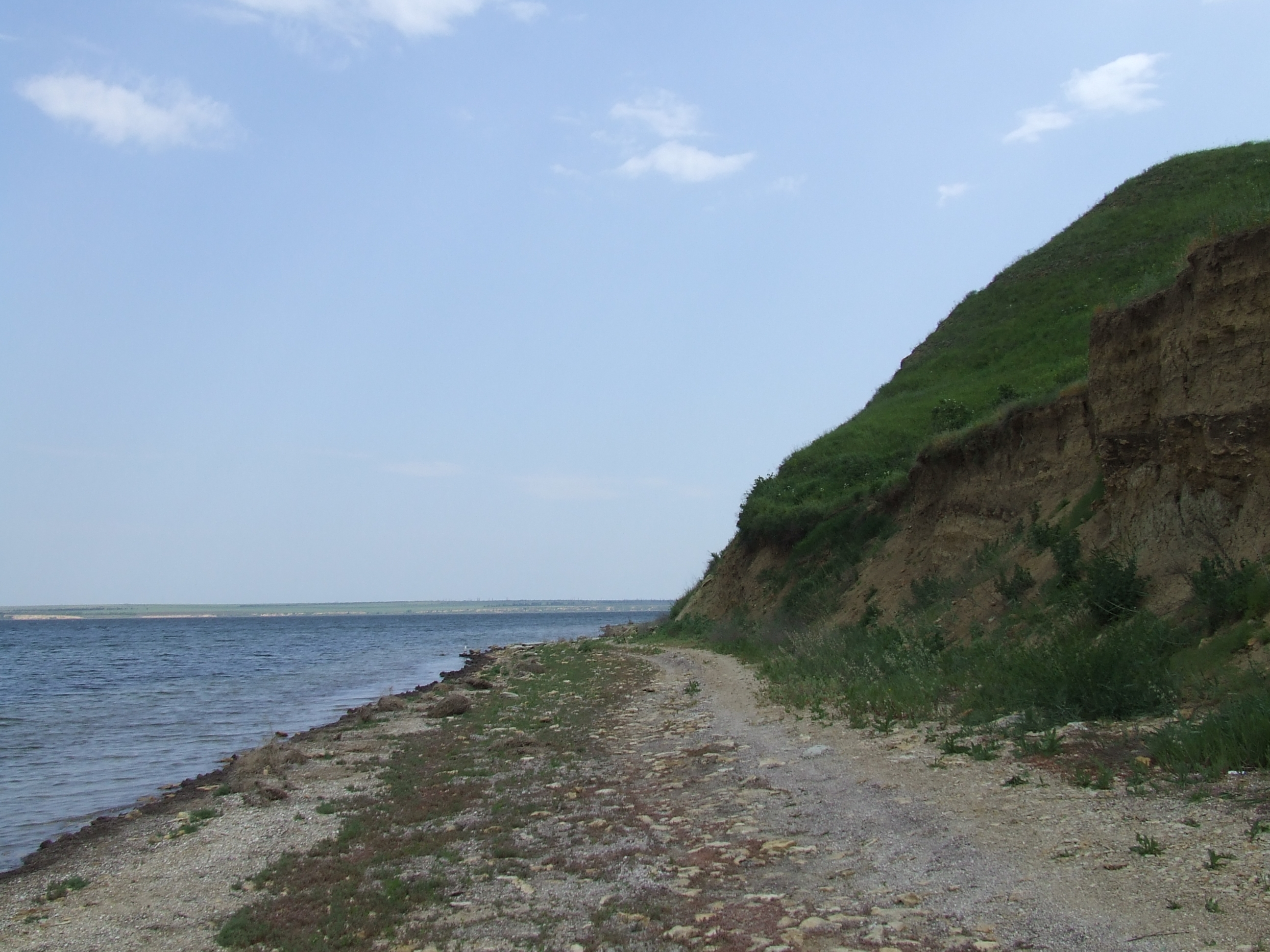 Shore of the Tylihulsky liman